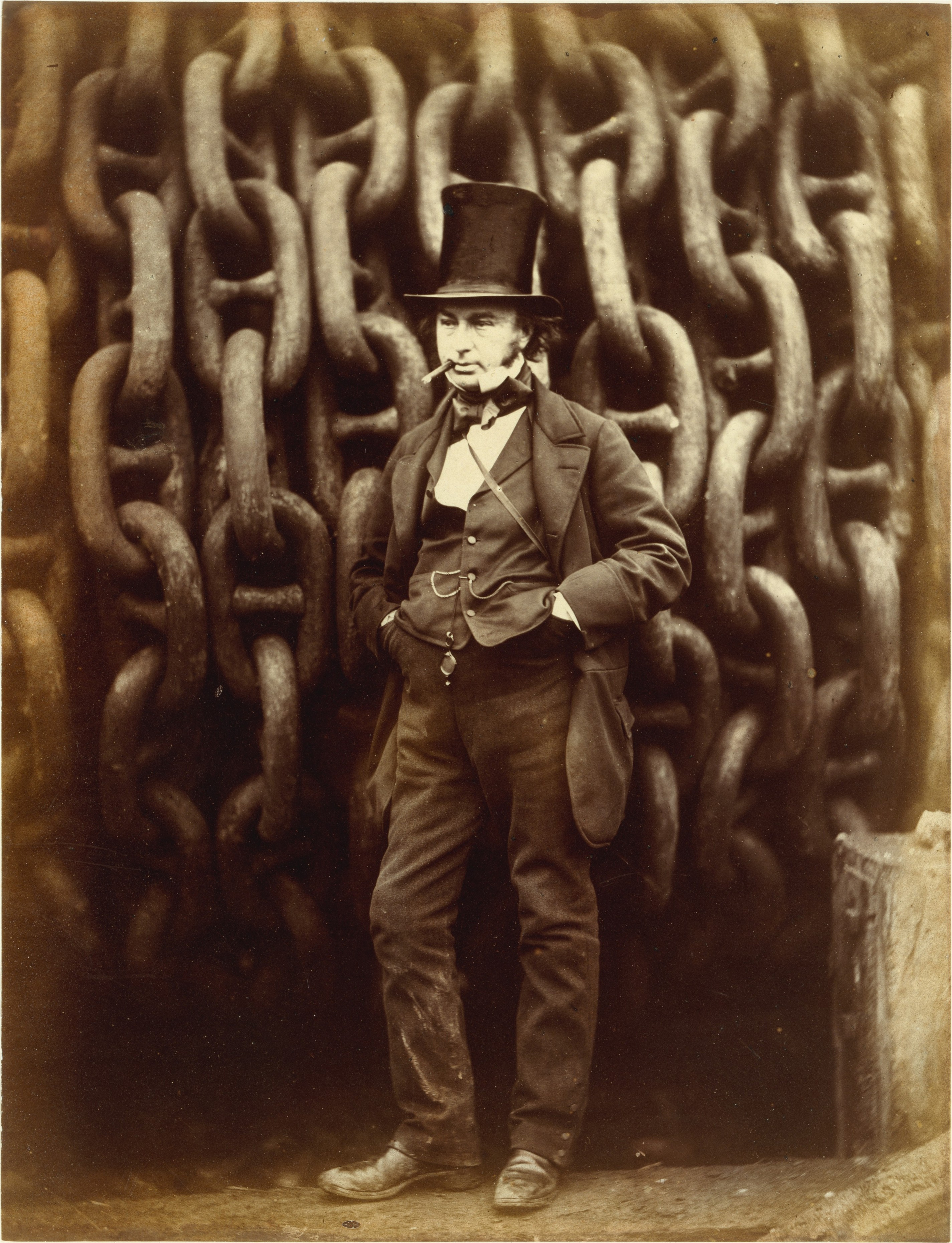 Isambard Kingdom Brunel Standing Before the Launching Chains of the Great Eastern, photograph by Robert Howlett. Now in the collection of the Metropolitan Museum of Art. Dimensions: Image: 27.9 x 21.5 cm (11 x 8 7/16 in.)